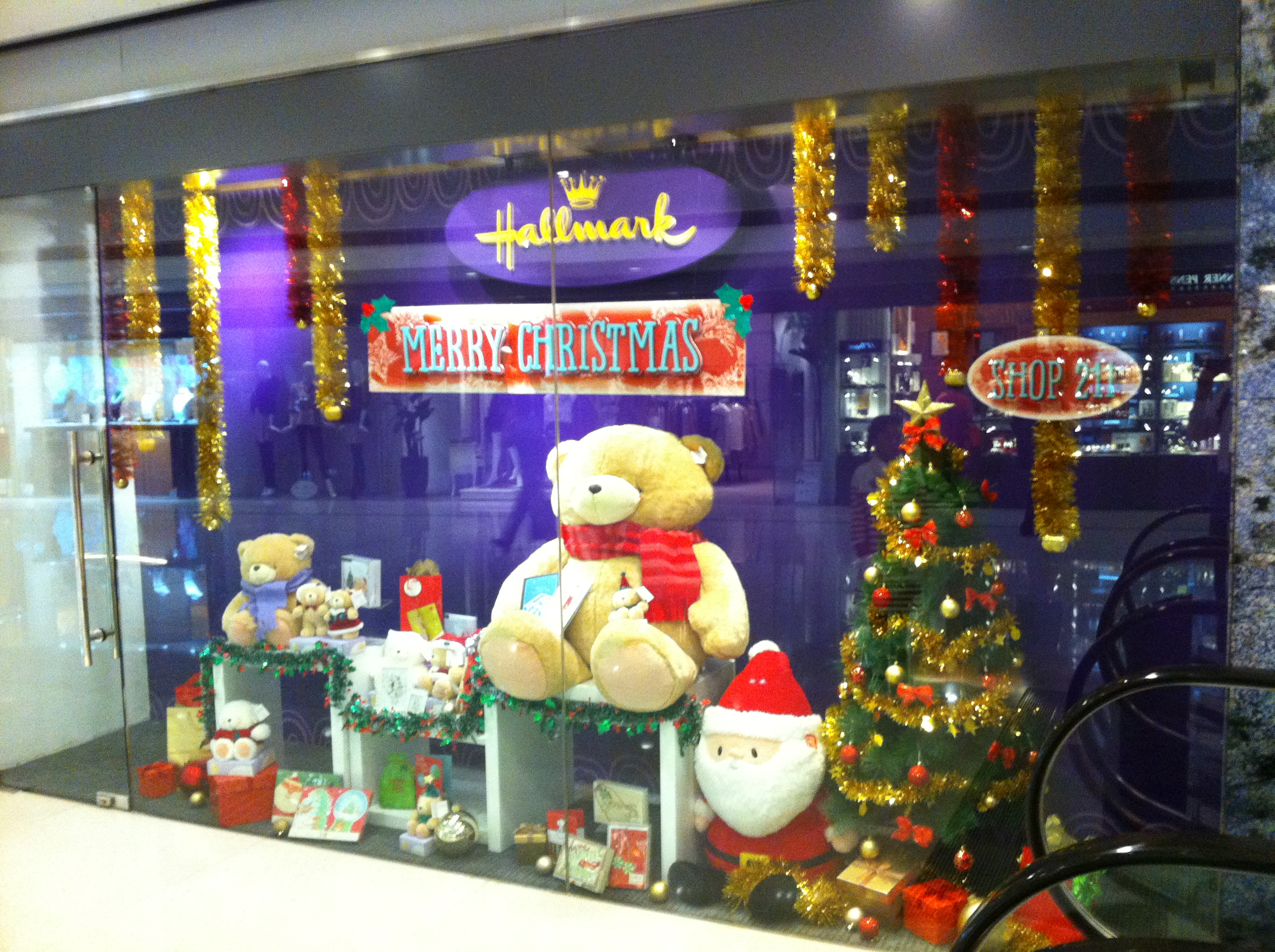 Man Yee Arcade, Man Yee Building, Central, Hong Kong